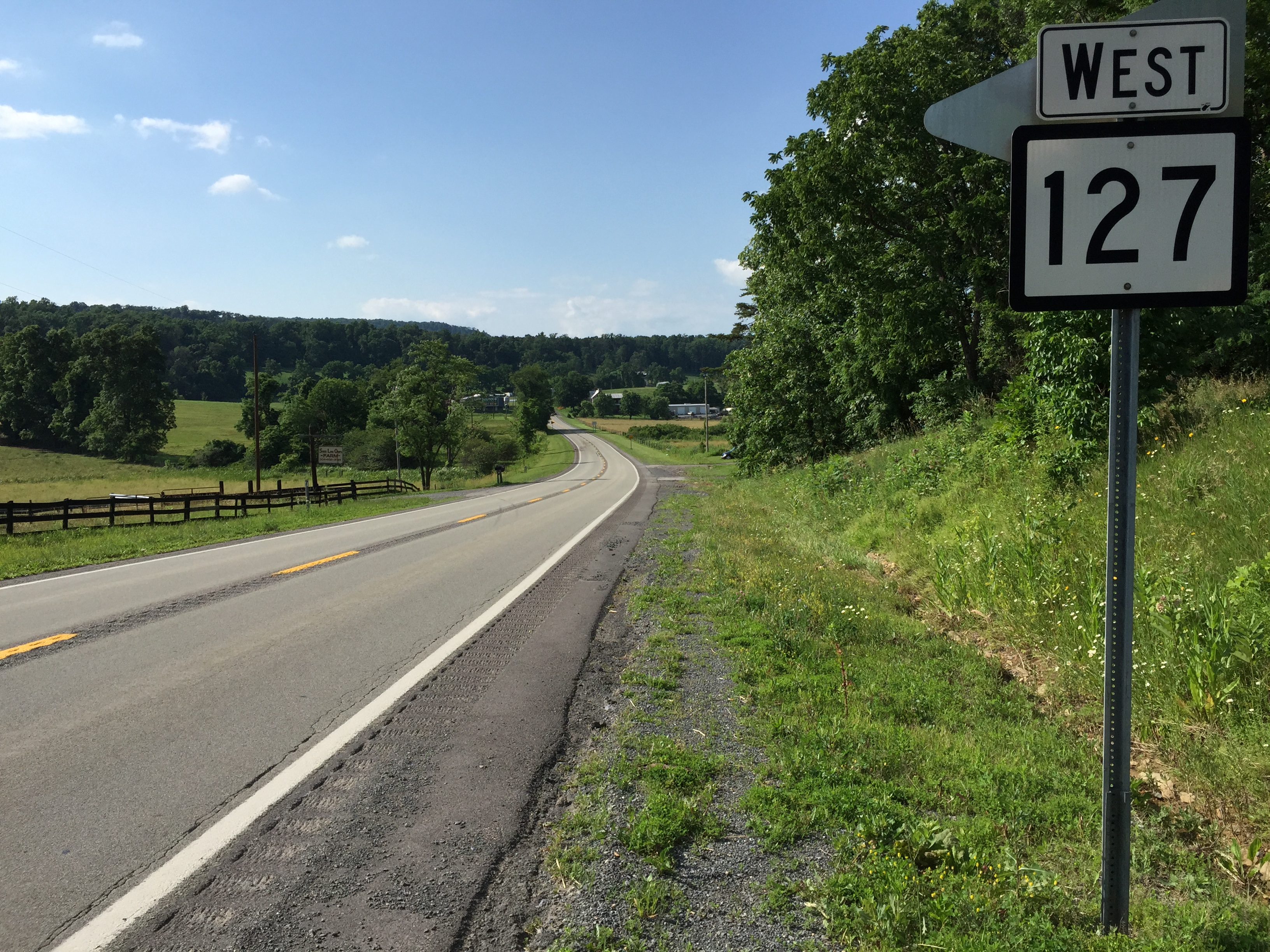 View west along West Virginia State Route 127 (Bloomery Pike) just west of Pugh Farm Lane in Good, Hampshire County, West Virginia